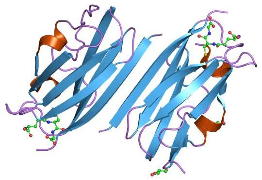 Cartoon representation of the molecular structure of protein registered with 2brq code.